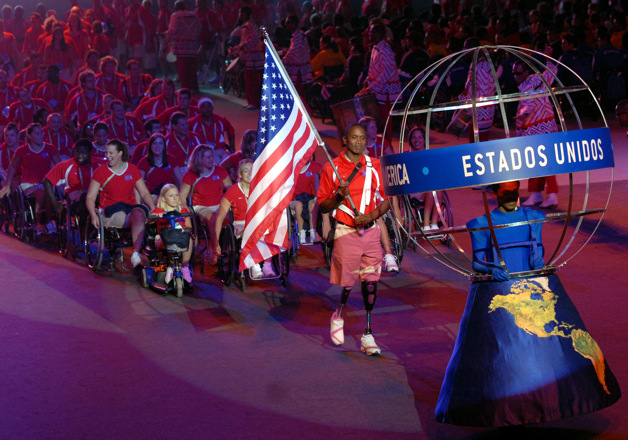 The delegation of the United States of America parades in the Opening Ceremony of the 2007 Parapan American Games in Rio de Janeiro.